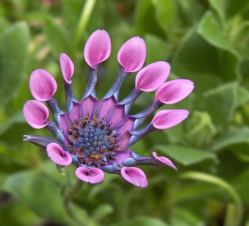 Cultivar Osteospermum 'Pink Whirls' Family Asteraceae